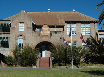 NSBHS front view from Falcon St.